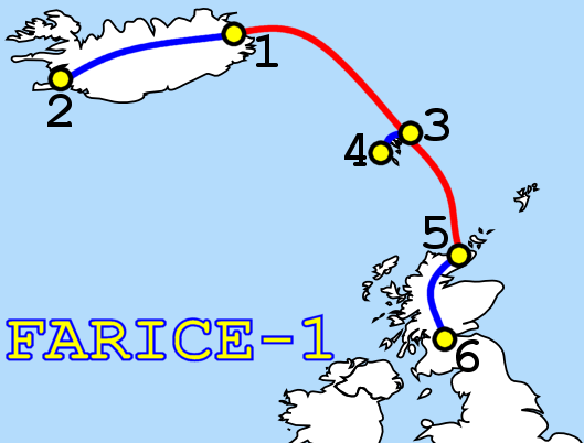 Map of the FARICE-1 Submarine Telecommunications cable. For more information on landing points (numbered), see main article. The Red segments are Submarine, the Blue are terrestrial.